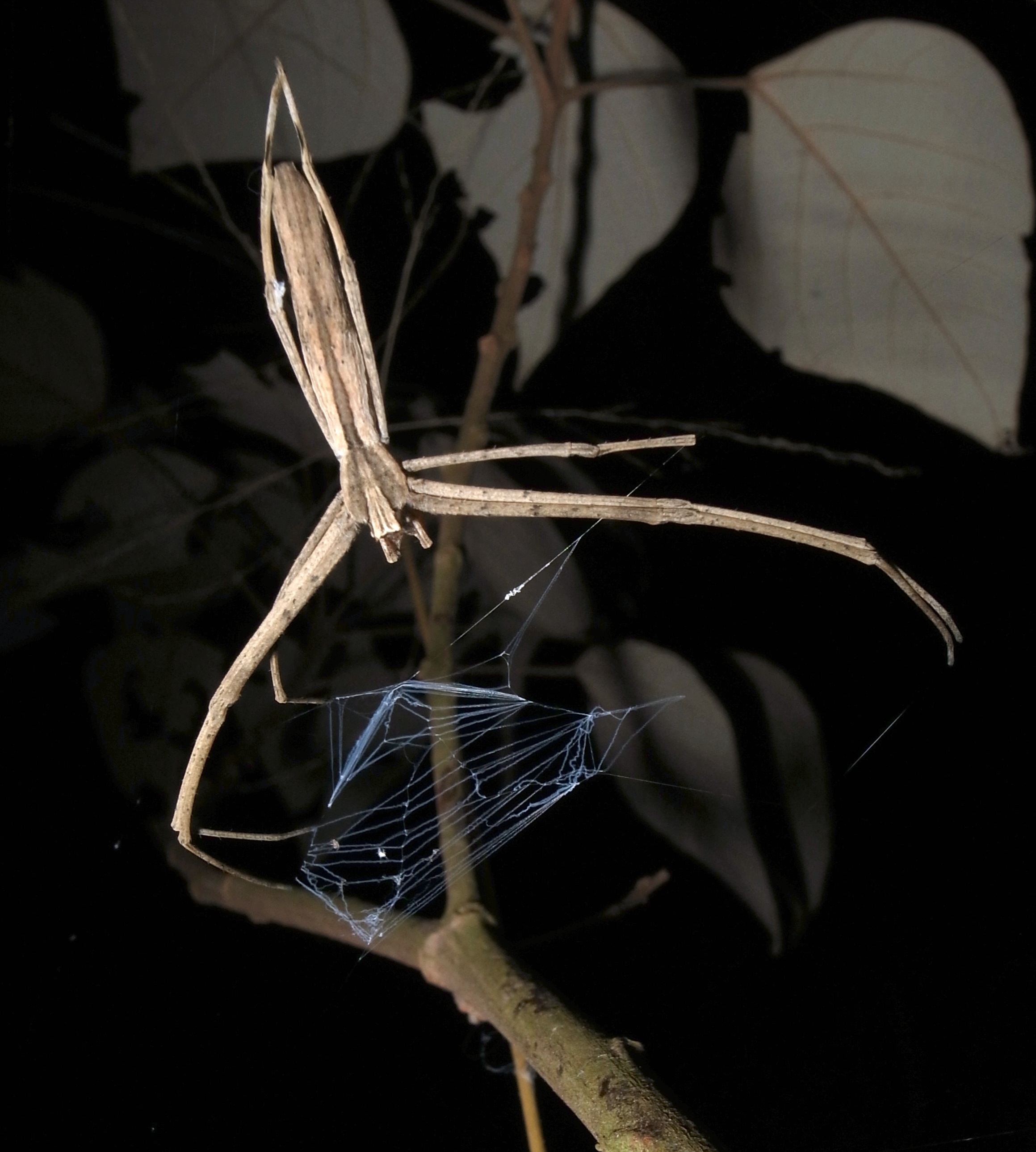 Deinopis sp. holding its web.